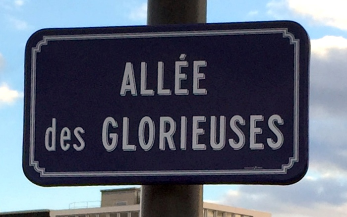 This photograph was taken with an iPhone 6